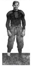 Harold Iddings while a football player at University of Chicago